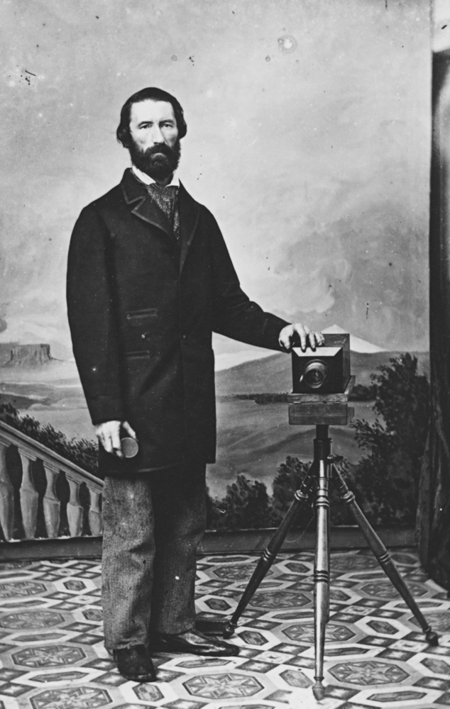 Peter Britt is one of the Pacific Northwest's most celebrated photographers. This self-portrait, probably taken in the 1860s, shows the stately Britt standing next to one of his first cameras, most likely a daguerreotype or wet plate model. His right hand holds a lens cap, which functioned as a shutter. Oregon Historical Society collections. Catalog Number: CN 000266